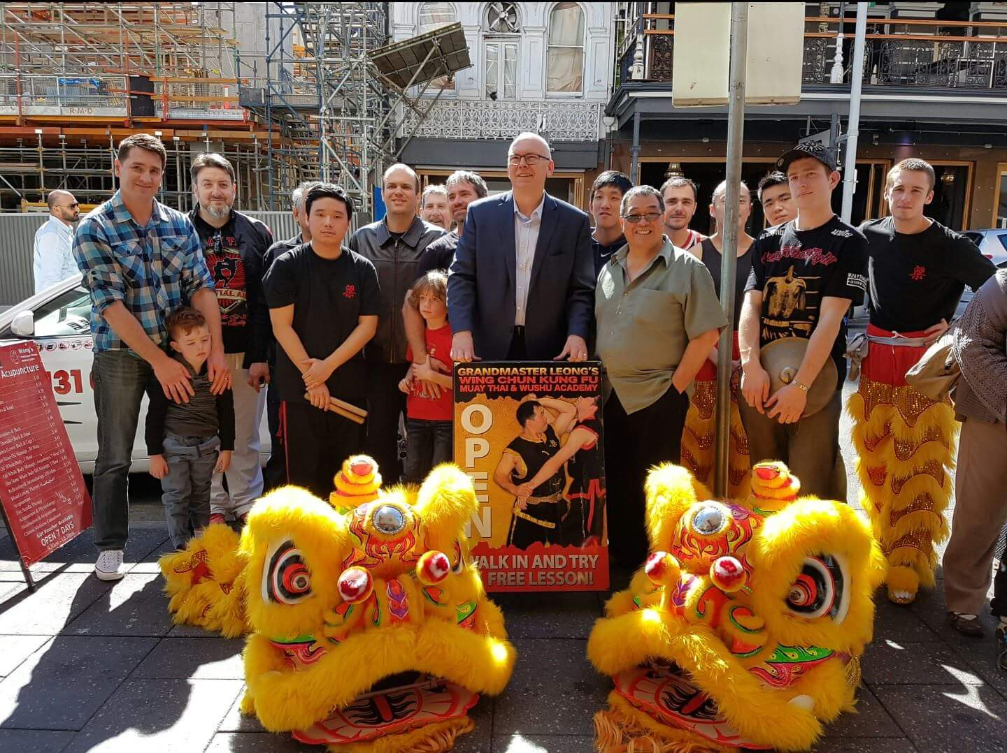 Grand Master Felix Leong's Rebirth from the ashes ceremony in Adelaide with David Pisoni State member for parliament and Maurice Novoa Ruiz